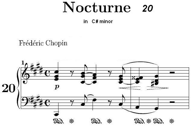 This is an example of the use of a double accidental within a key signature.